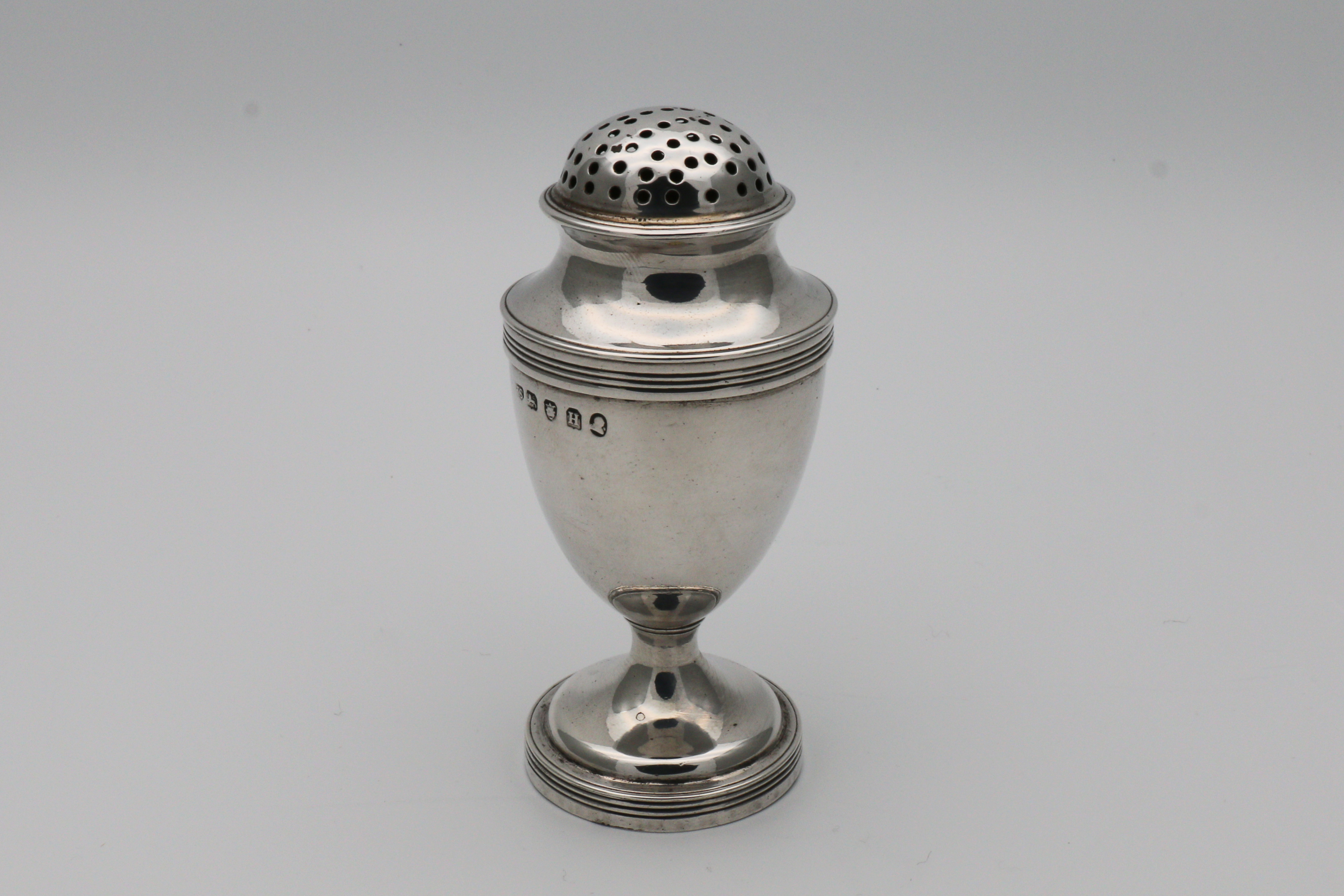 Georgian pepper shaker, or pepperette, hallmarked London 1803